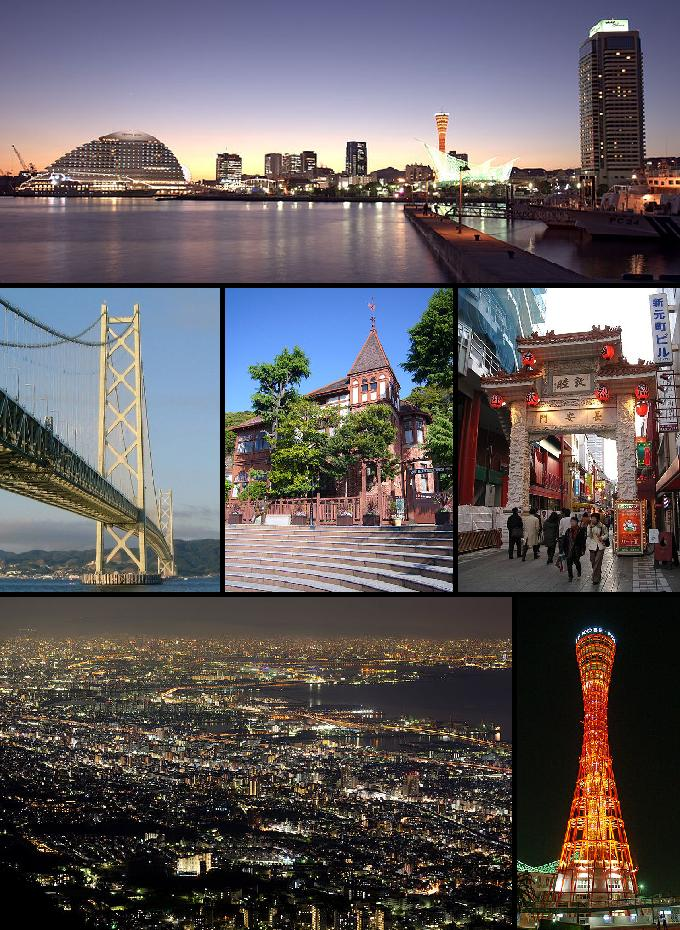 Port of Kobe, Akashi Kaikyo Bridge, Old Thomas house, Chinesetown, Night view from Mount Maya, Kobe Port Tower